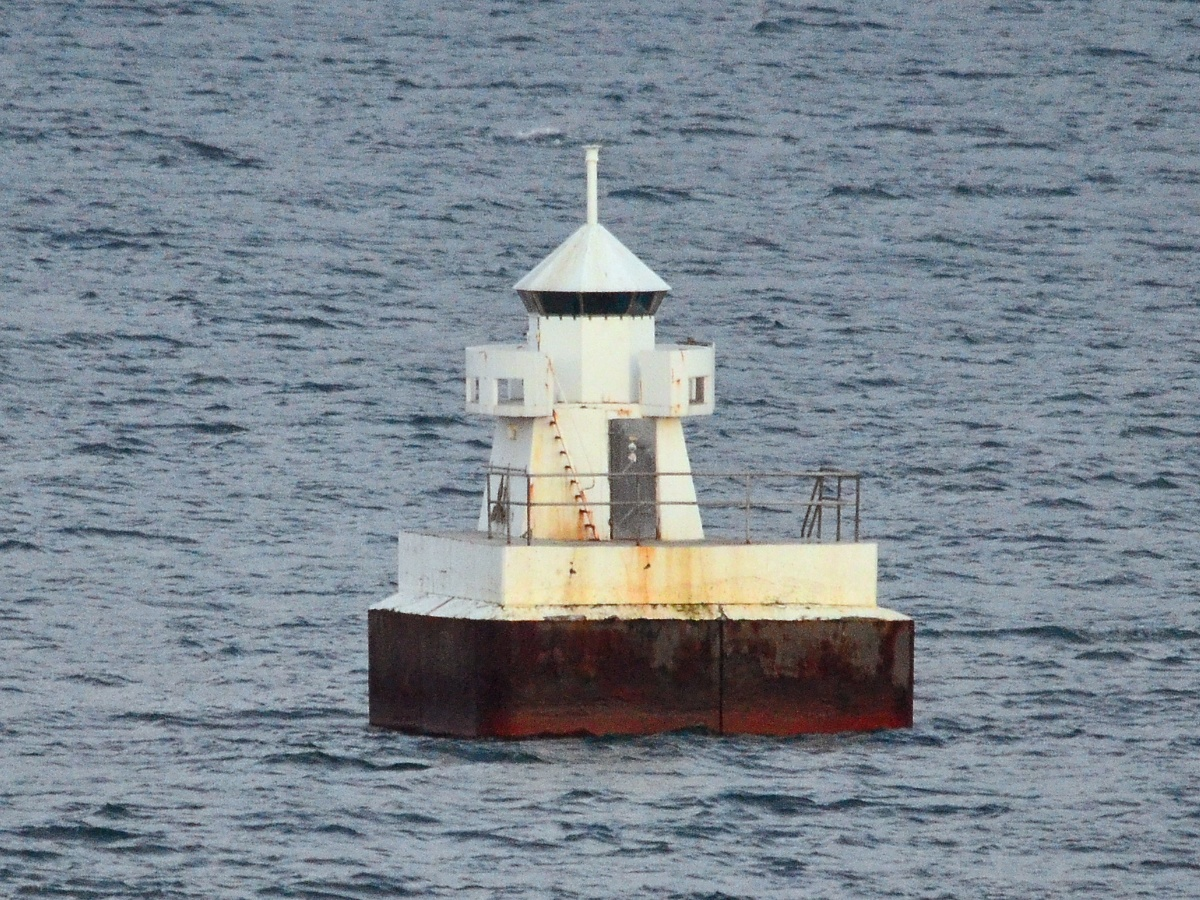 The lighthouse Seilinriutta west of Själö, Nagu, Finland.